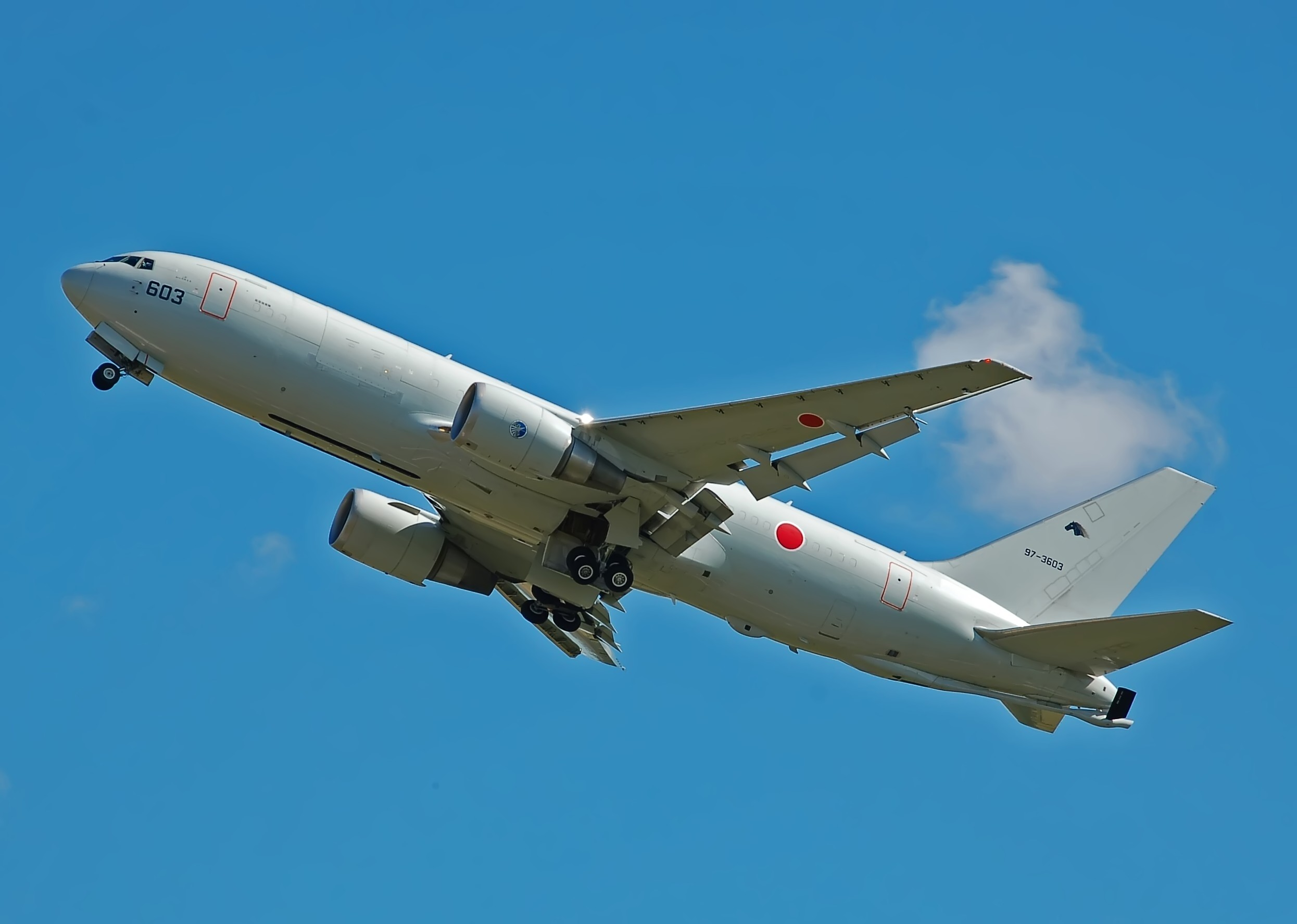 Boeing KC-767J tanker(97-3603) of the Japanese Air Self-Defense Force takes off from RAF Fairford, Gloucestershire, England, during the Royal International Air Tattoo departures day.